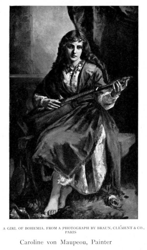 1905 print after page of Women painters of the world, from the time of Caterina Vigri, 1413-1463, to Rosa Bonheur and the present day, by Walter Shaw Sparrow, The Art and Life Library, Hodder & Stoughton, 27 Paternoster Row, London